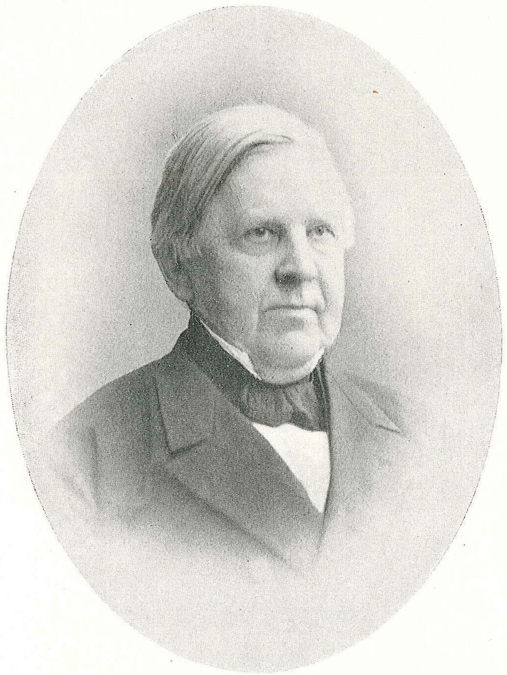 Henrik Schönbeck (1810-1896), Swedish clergyman and member of parliament.